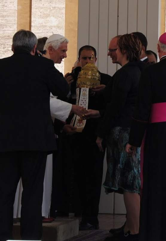 Tiara presented to His Holiness Pope Bendict XVI on May 25, 2011.